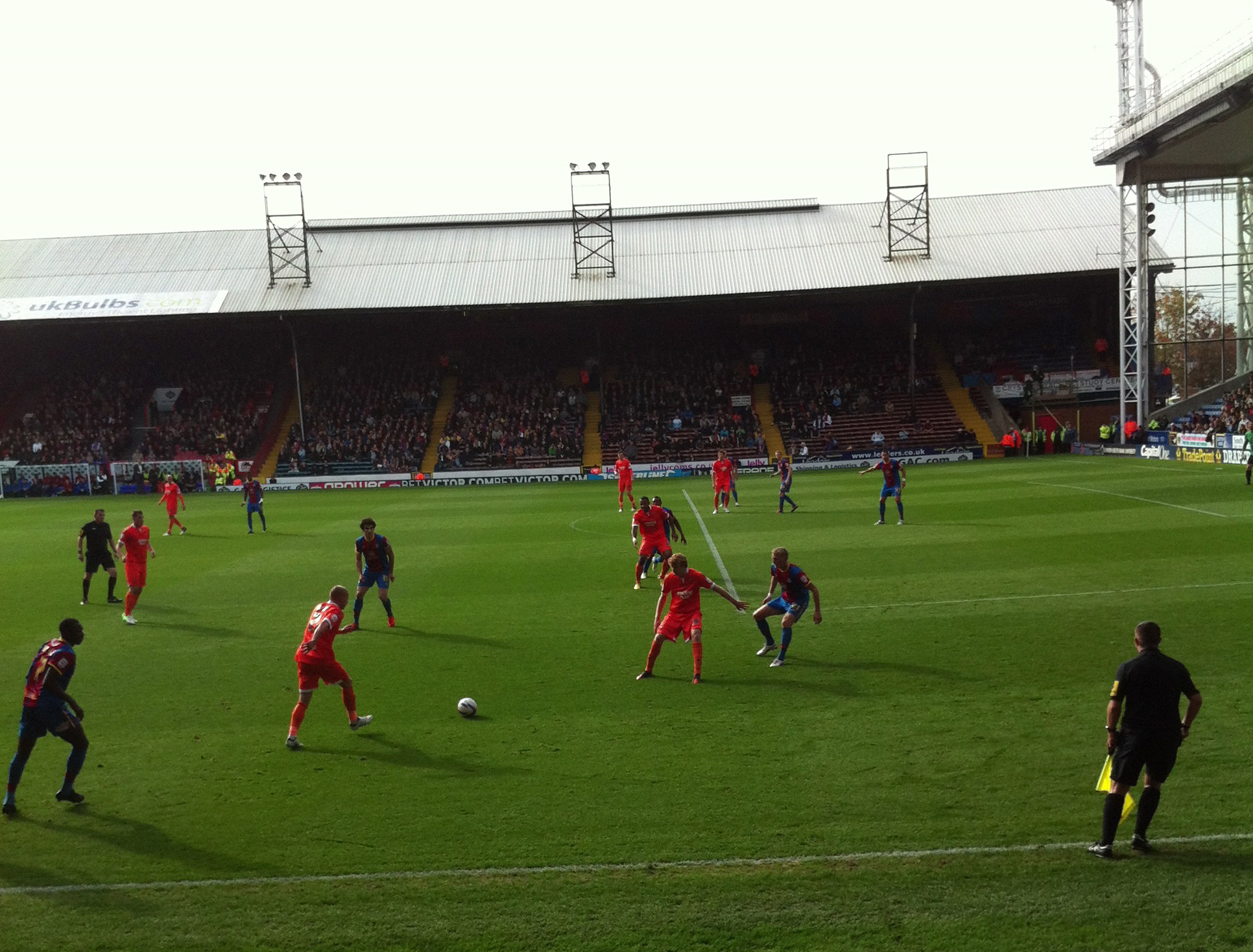 Crystal Palace 2 vs Millwall 2 at Selhurst Park, on 20 October 2012.